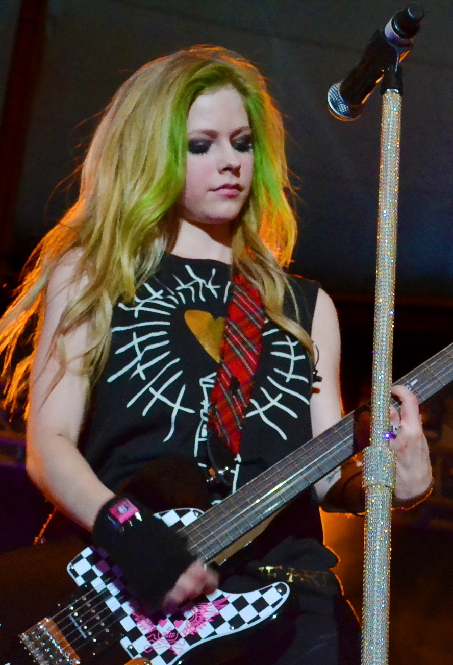 Avril Lavigne playing the guitar on stage during her Black Star Tour on May 28, 2011. The venue is the Tropicana Field stadium in St. Petersburg, Florida, during the Rays/Hess Express Saturday Concert Series. Photographed on a Nikon D3100.